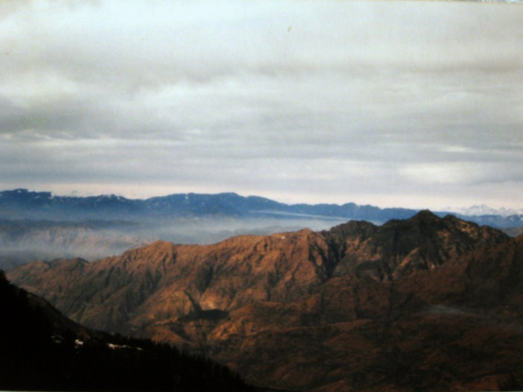 View of Himalayan range from Chharabra